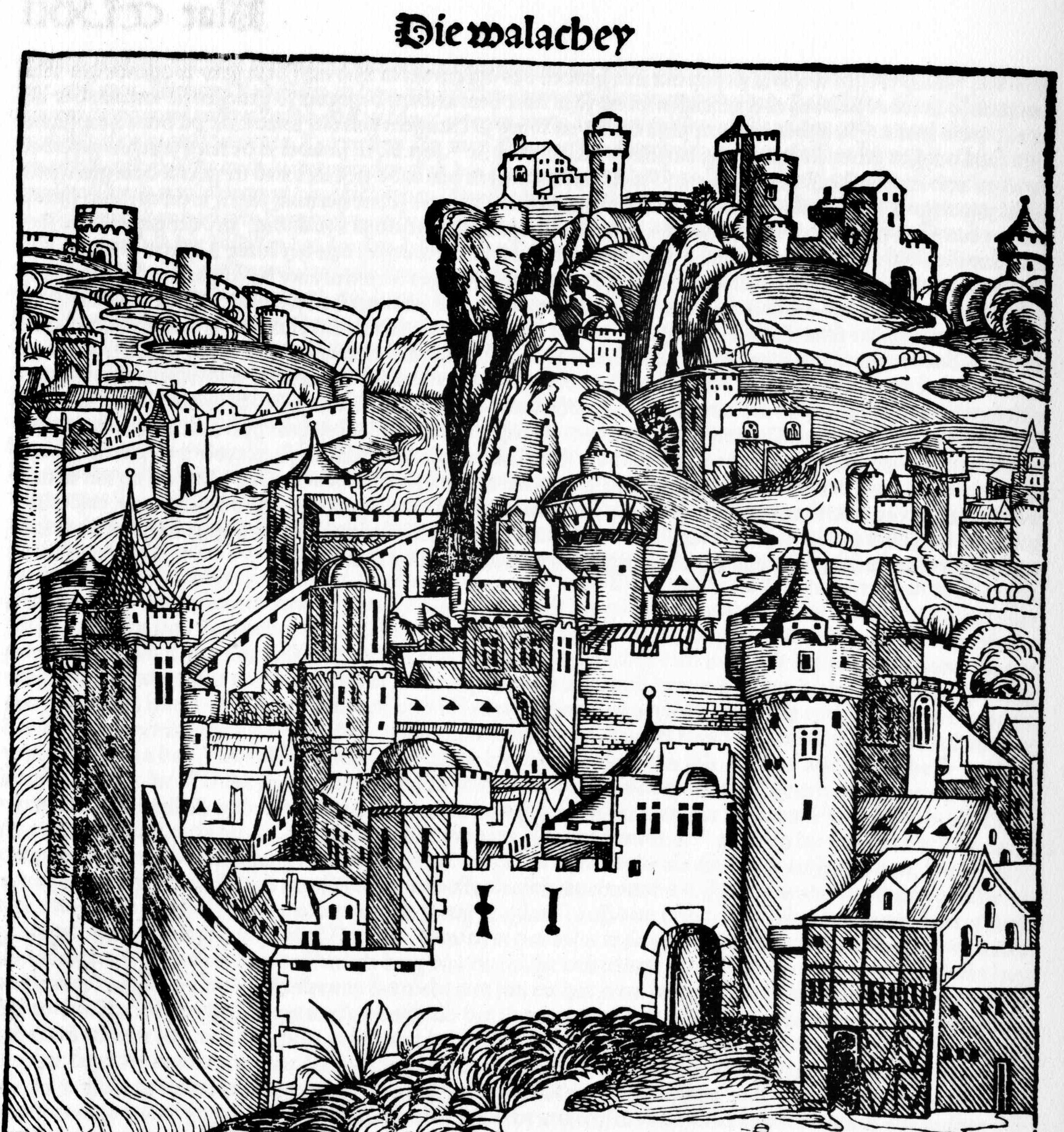 This is a part of a scan of an historical document: Title: Schedelsche Weltchronik or Nuremberg Chronicle Wallachia picture